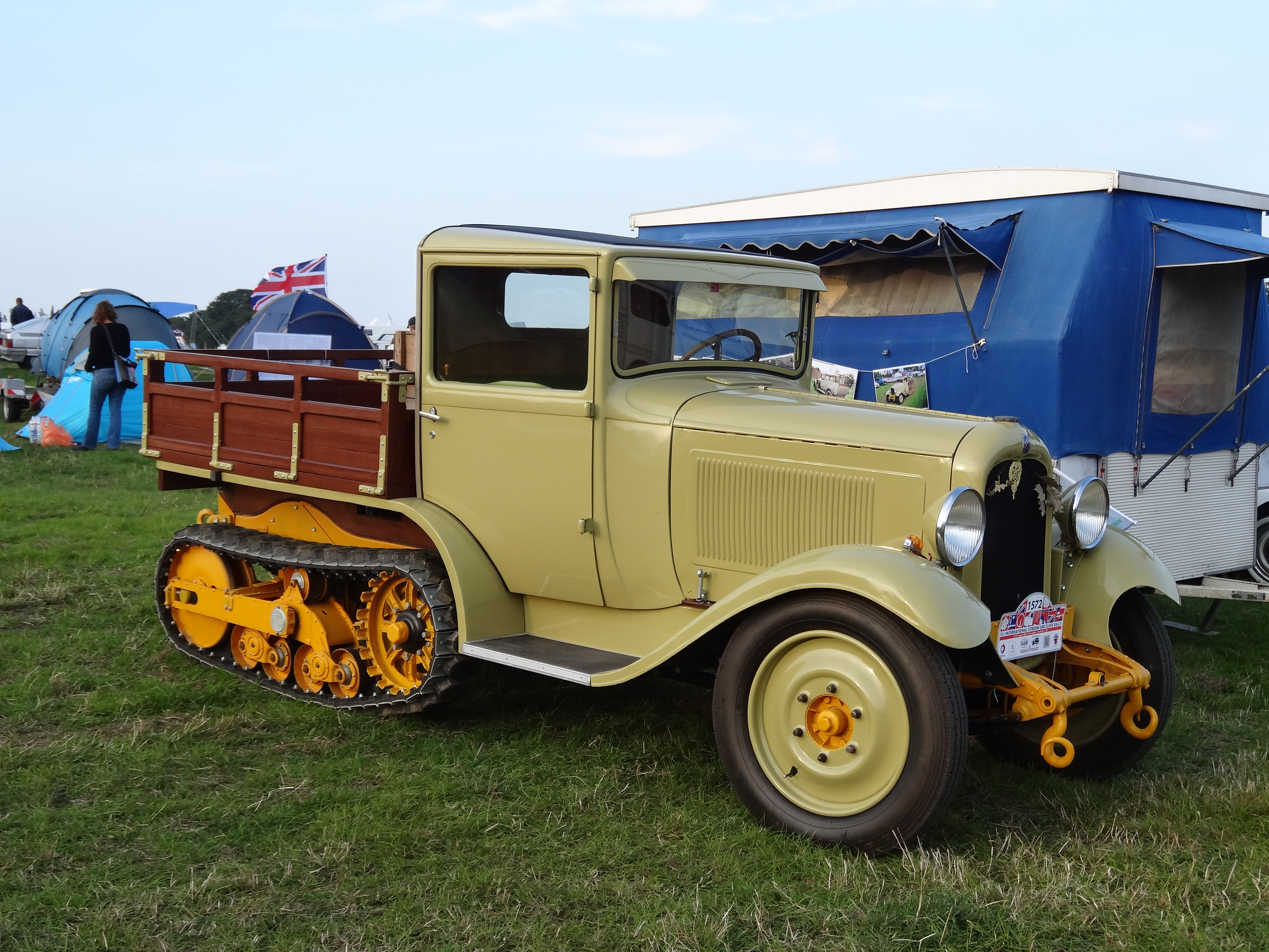 A 1933 C4 based Citroën P17 C Kégresse at the 2012 International Citroën Car Clubs Rally in Harrogate, North Yorkshire.